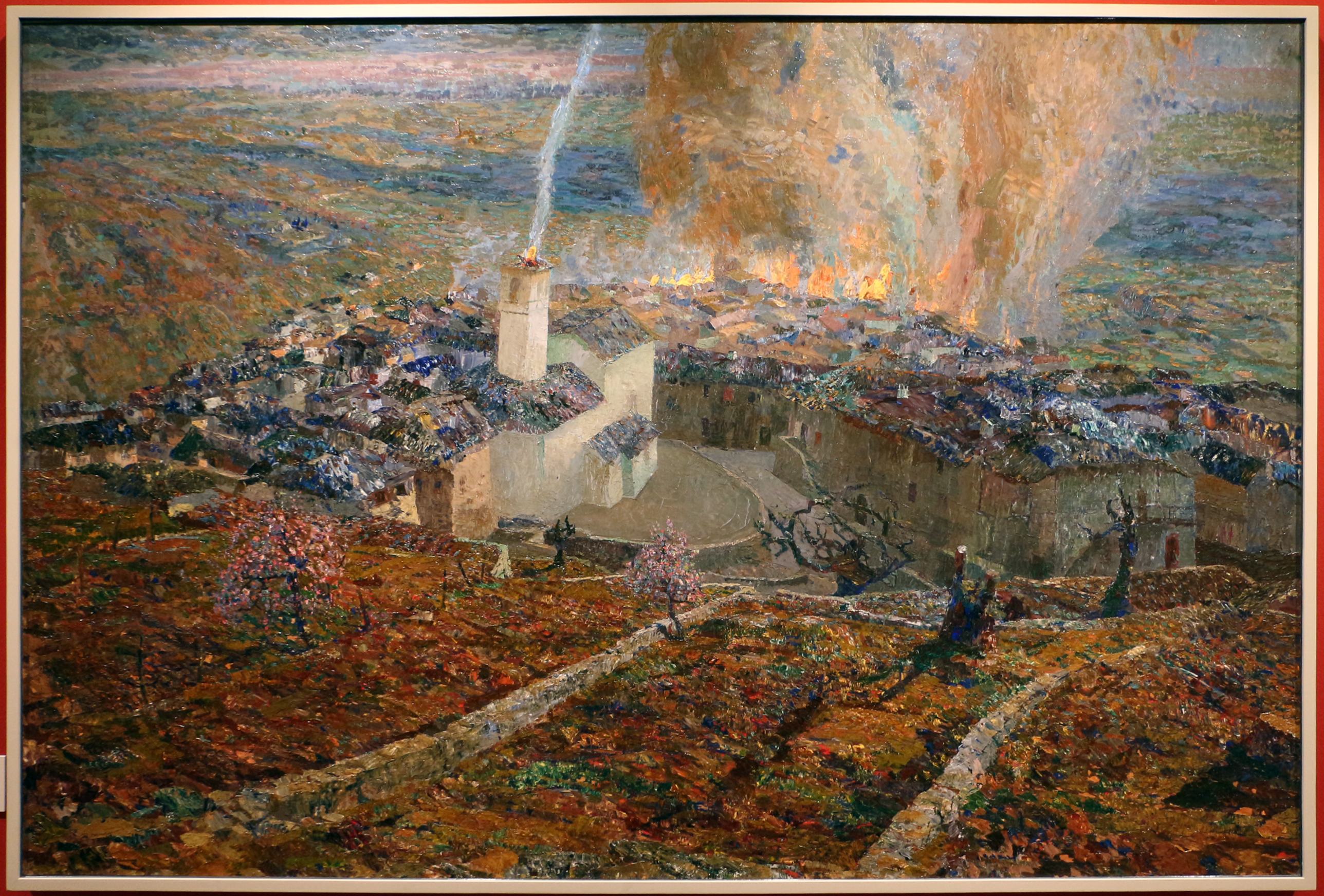 Exhibition at Buonconsiglio Castle